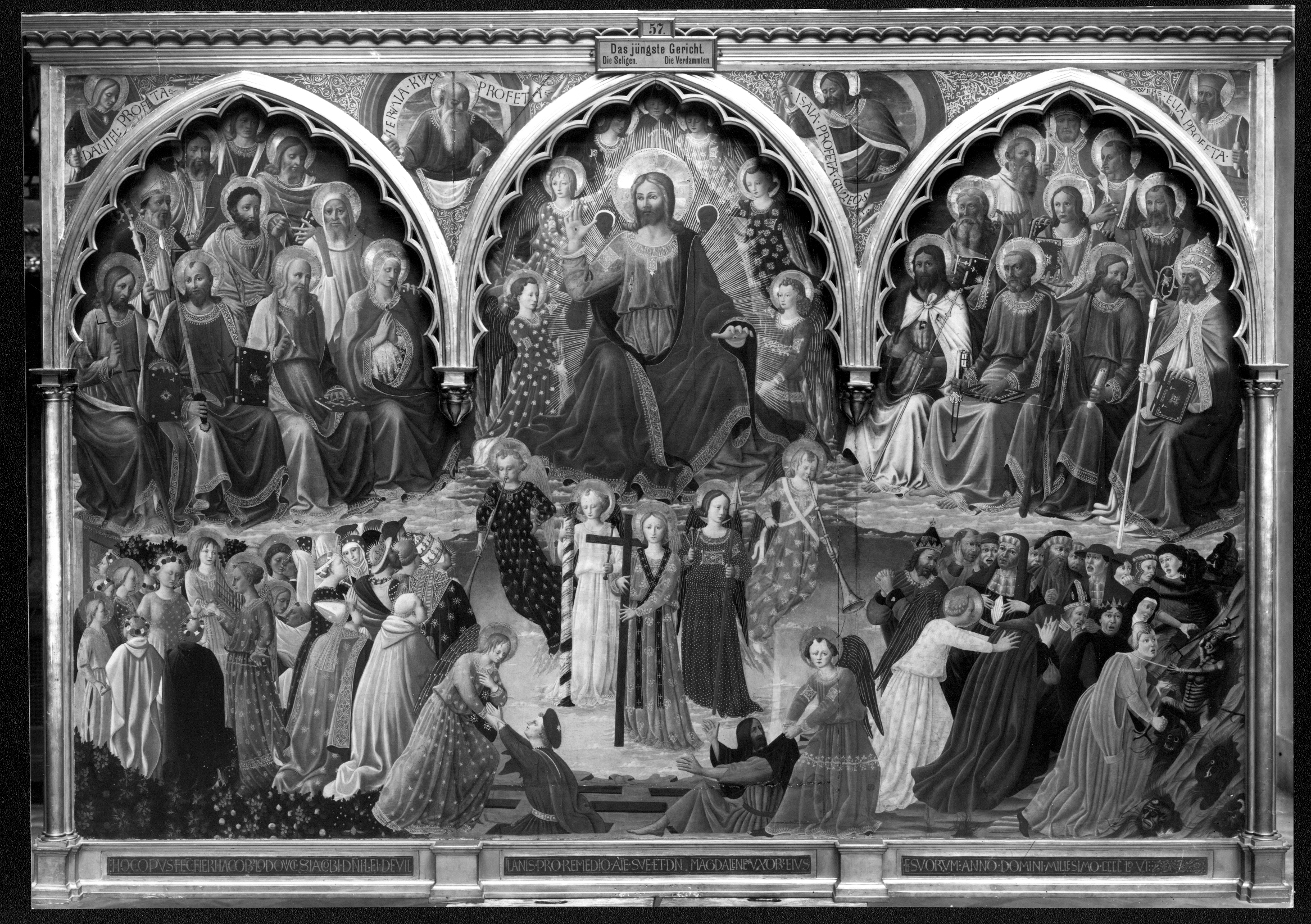 'Last Judgment', by Fra Angelico (School of), 1456 . The painting was destroyed or disappeared in Berlin in May 1945, in the Friedrichshain flak tower fire. - Dimensions: 181 x 284 cm - Tempera on panel